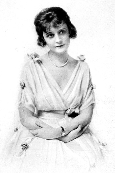 Billie Burke. The Photo-Play Journal, May 1916